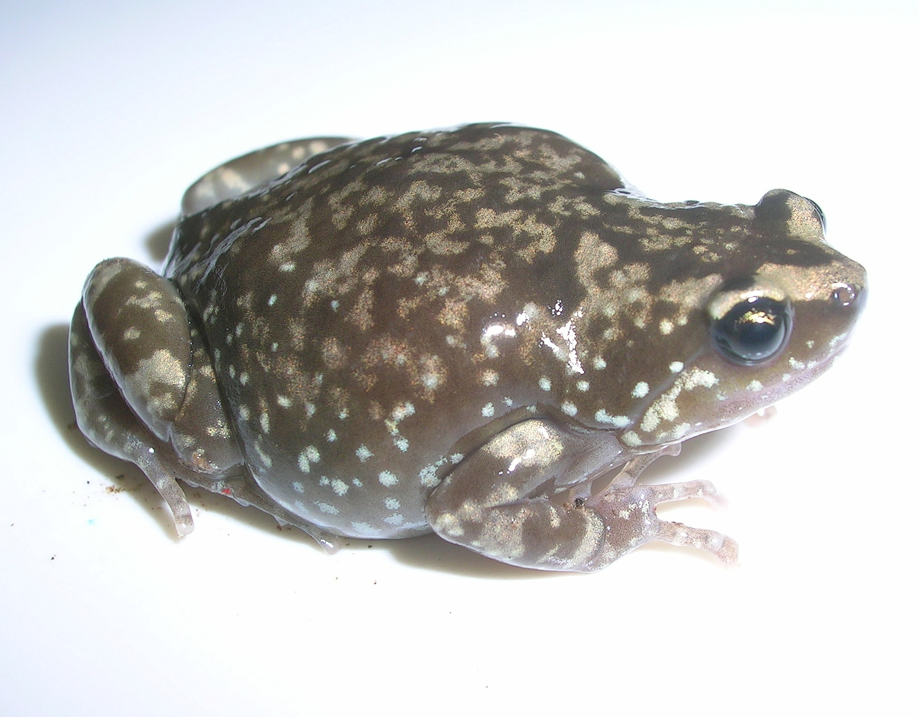 Ramanella variegata, Bangalore, India